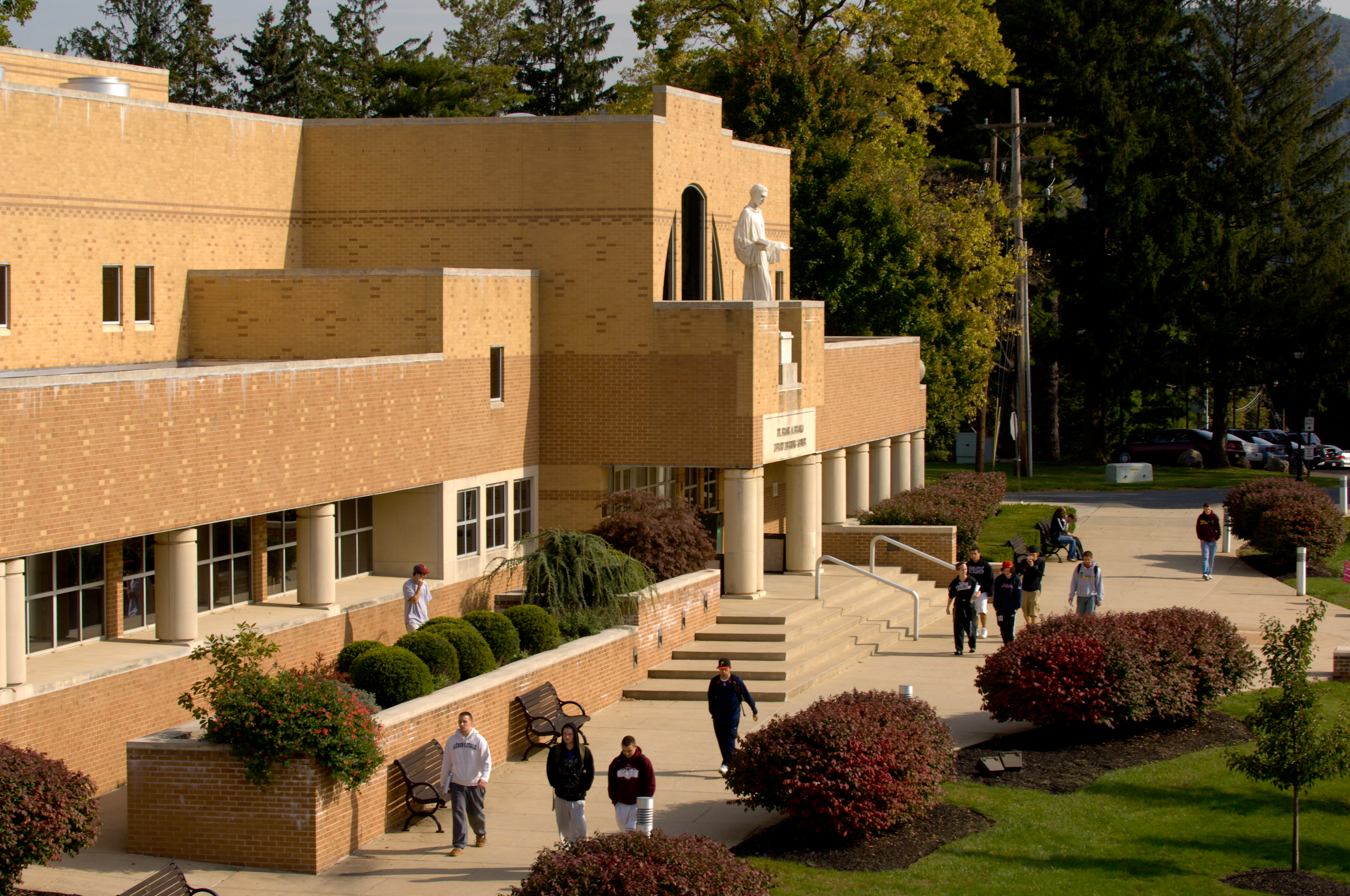 The Frank A. Franco Library at Alvernia University is perfectly situated in a centralized location and is specifically designed to support research and independent study.